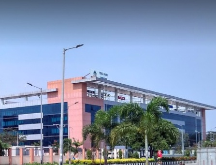 TIDELPark Coimbatore